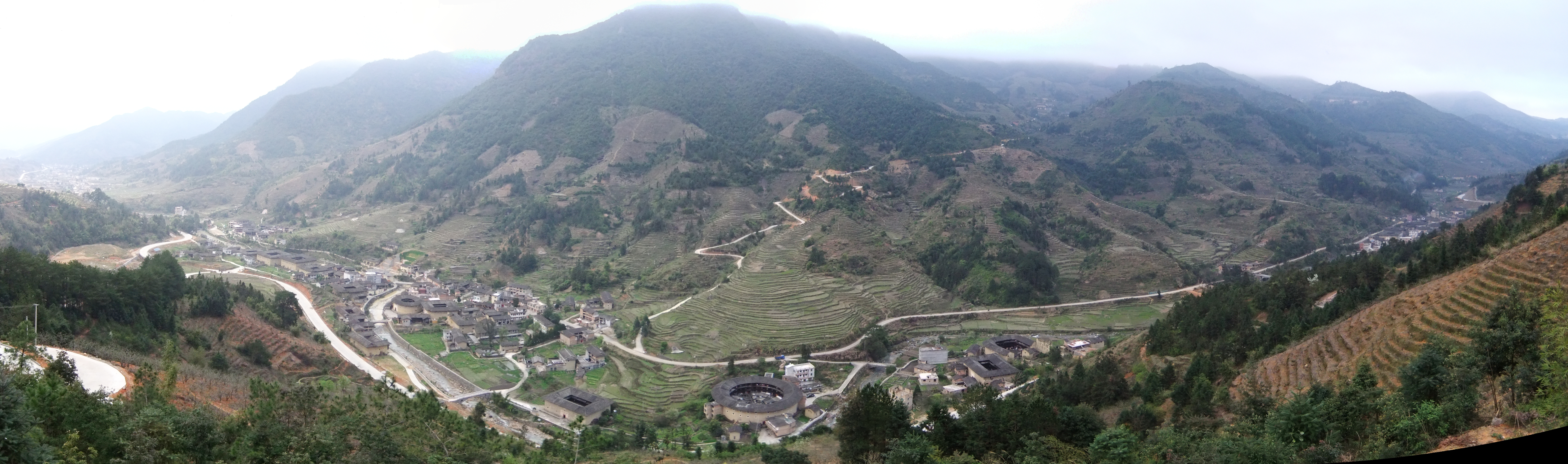 A panoramic view of the Nanxi Creek Valley, with its chain of tulou villages, from a lookout tower on the western side of the valley.